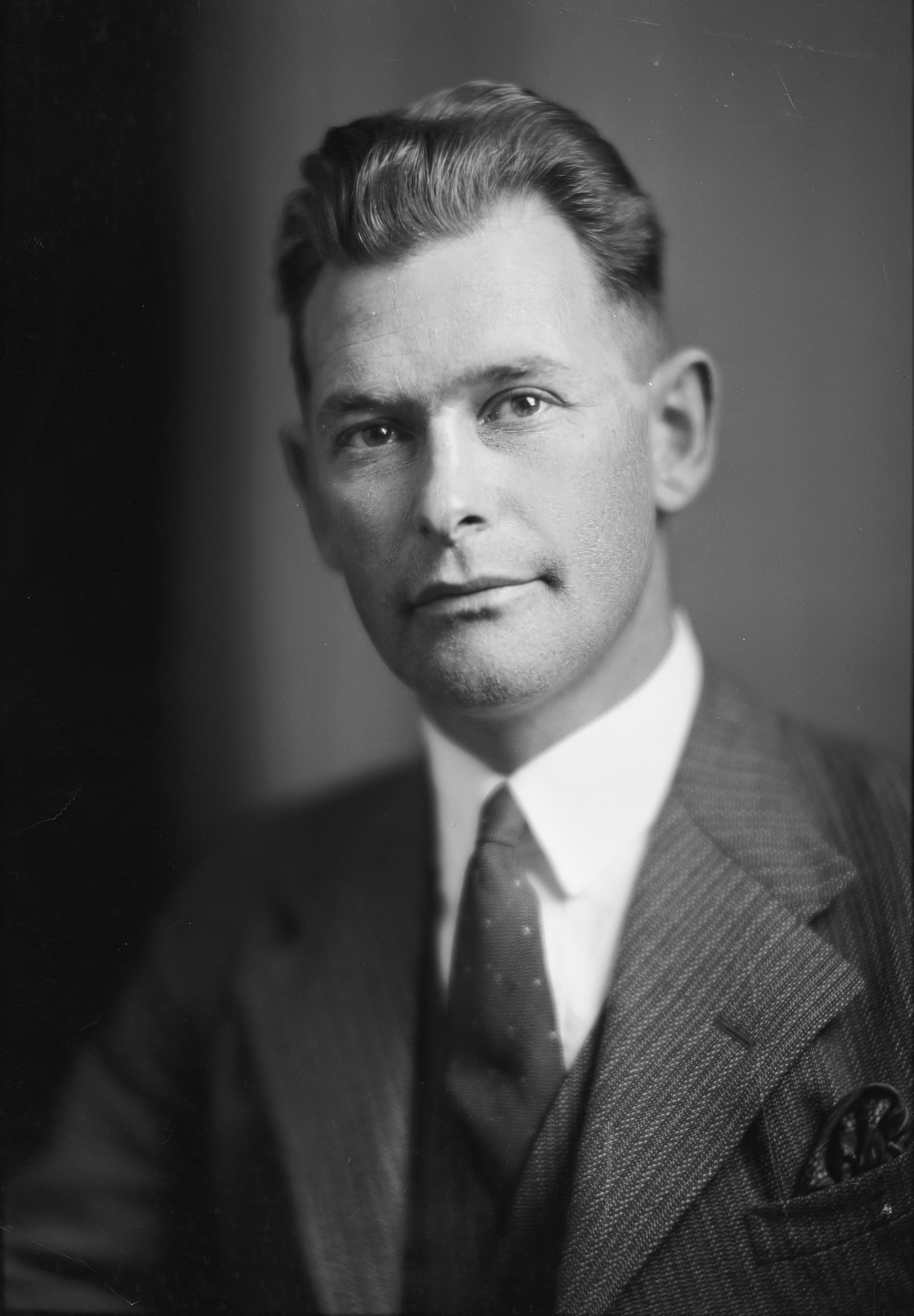 Keith Jacka Holyoake, October 1933. Photograph taken by S P Andrew Ltd.